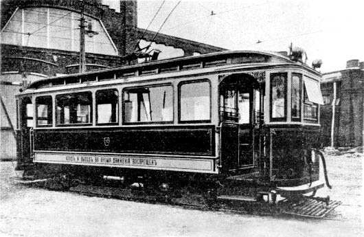 MB car near the car shed. 1909.